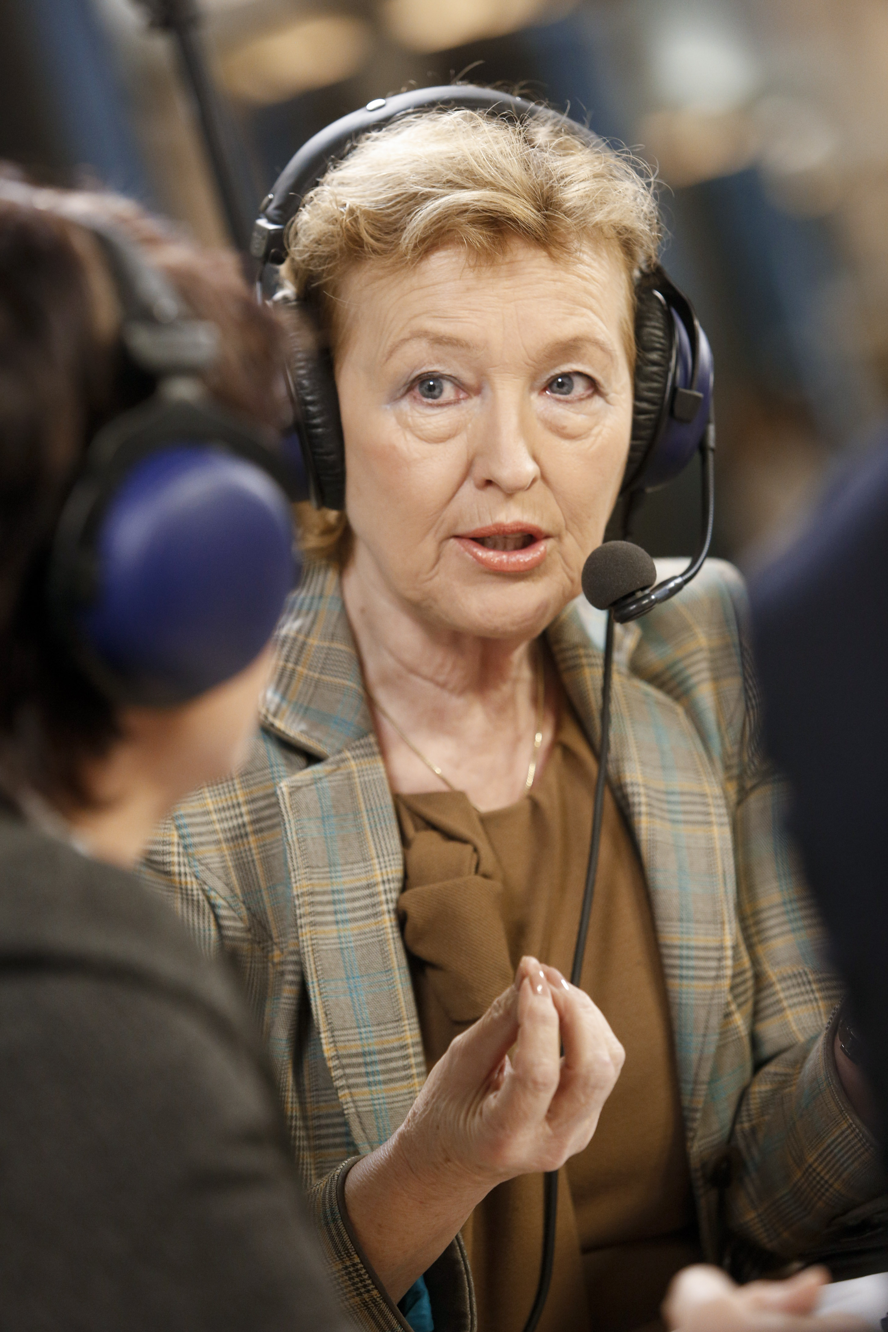 Just a few months ahead of the European elections in May this year, there are many unresolved questions and issues around the right to vote in the EU. These took centre stage during our Citizens’ Corner debate, which featured MEPs, EU experts on the topic and students who raised their concerns and questions. Our journalistic aim with these monthly debates is to provide information on the set of rights EU citizens have, but also to discover gaps which may still remain between the applicable legal rules and the reality of citizens in their daily lives, particularly in cross-border situations. An open dialogue is facilitated, contributing to new insights between all actors involved. The debate was produced by Euranet Plus and the public service of Radio-Television Slovenia (RTV SLO), a member of the Euranet Plus network. This part of the debate was moderated by Alenka Terlep. The guests were: MEP Zofija Mazej Kukovič, Group of the European People's Party (Christian Democrats) MEP Tanja Fajon, Group of the Progressive Alliance of Socialists and Democrats MEP Alojz Peterle, Group of the European People's Party (Christian Democrats) MEP Ivo Vajgl, Group of the Alliance of Liberals and Democrats for Europe Listen to the debates and get all other details at